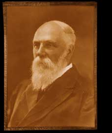 Robert Stout (1844-1930)